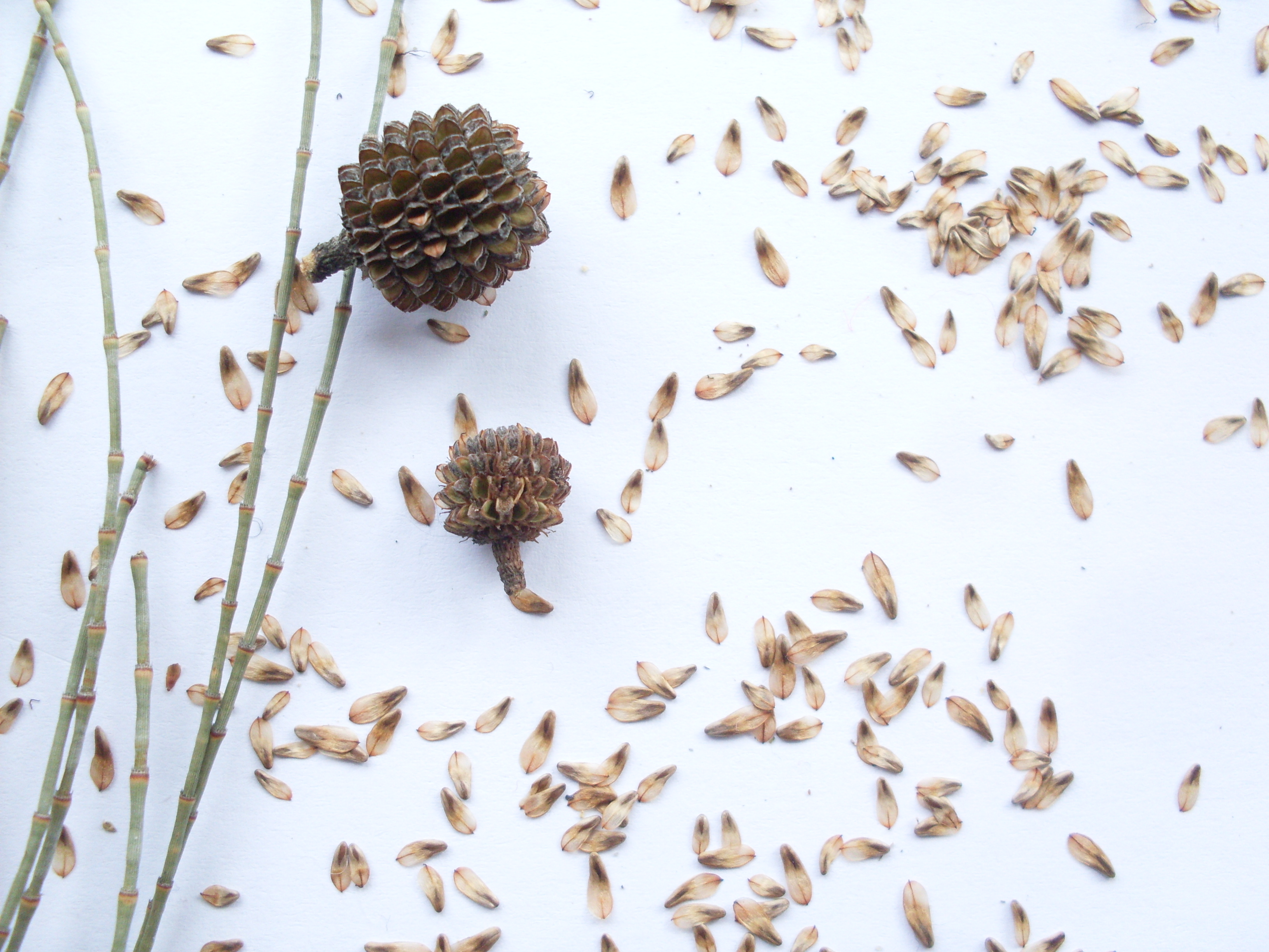 Seeds of the Swamp She-oak (Casuarina glauca). Como NSW Australia, June 2009.